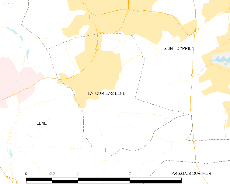 Map of French municipality